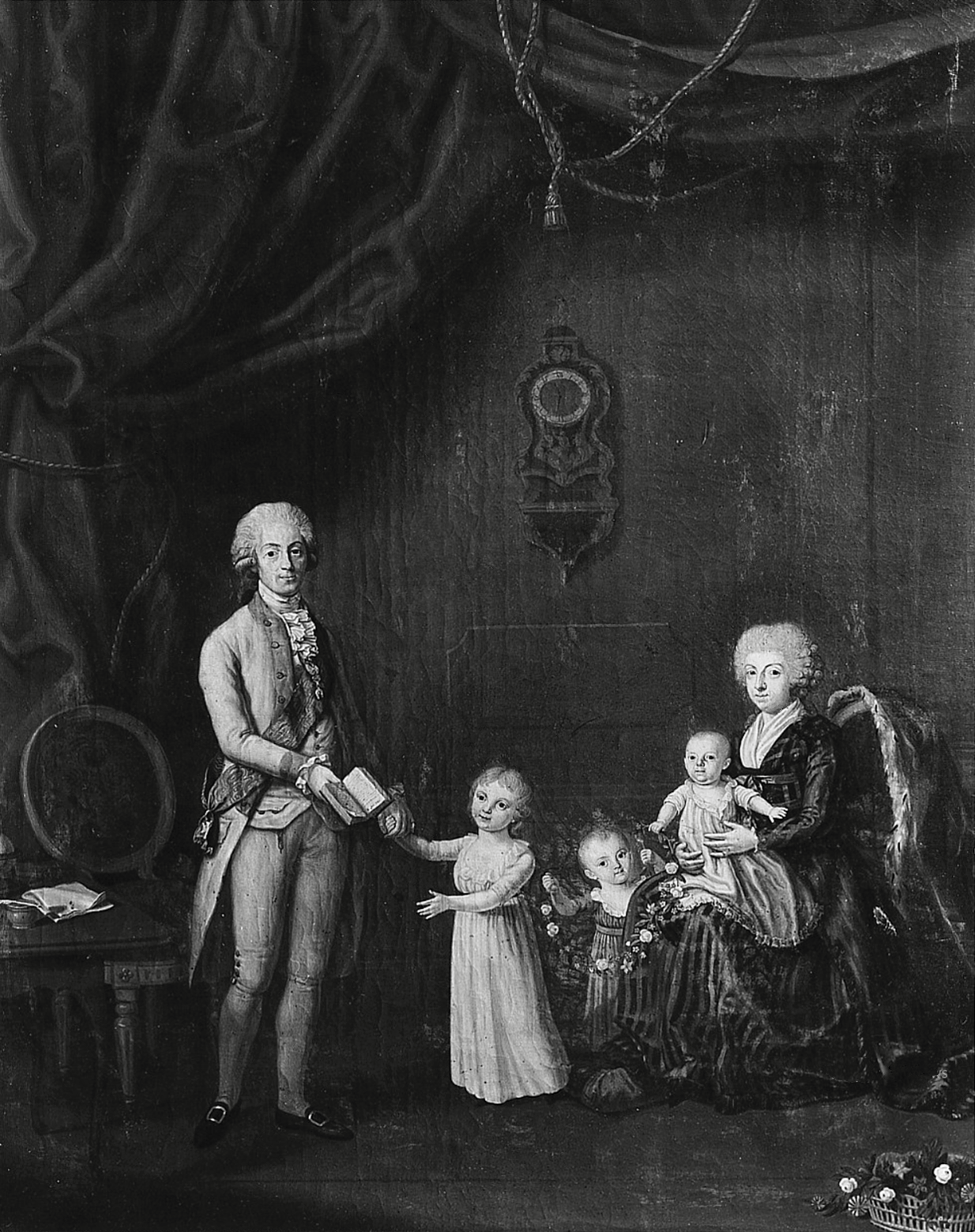 Maximilian of Saxony, his wife Carolina of Parma and their children, So-called portrait of Ferdinand of Parma and his family